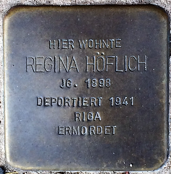 Stolperstein - Stumbling Stone in Nettetal, NRW, Germany Regina Hoeflich